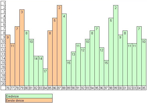 Dutch league positions of Willem II, last 30 seasons